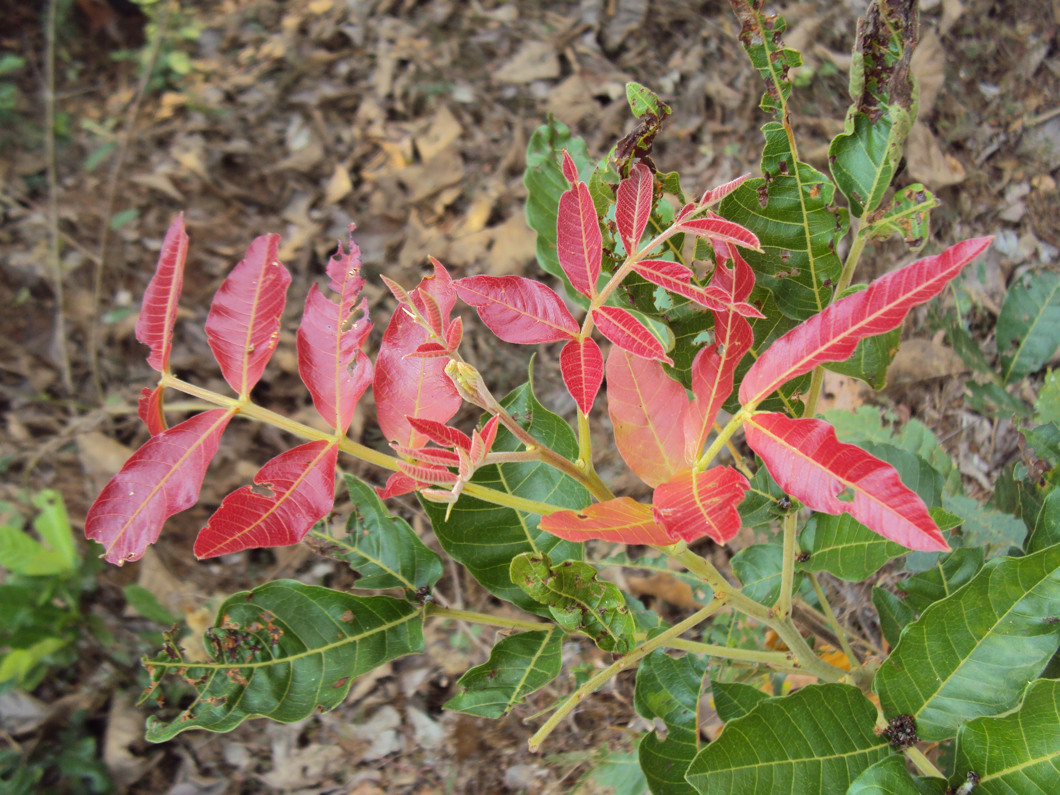 Schleichera oleosa young leaves